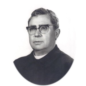 Conego Doutor Adão Salgado